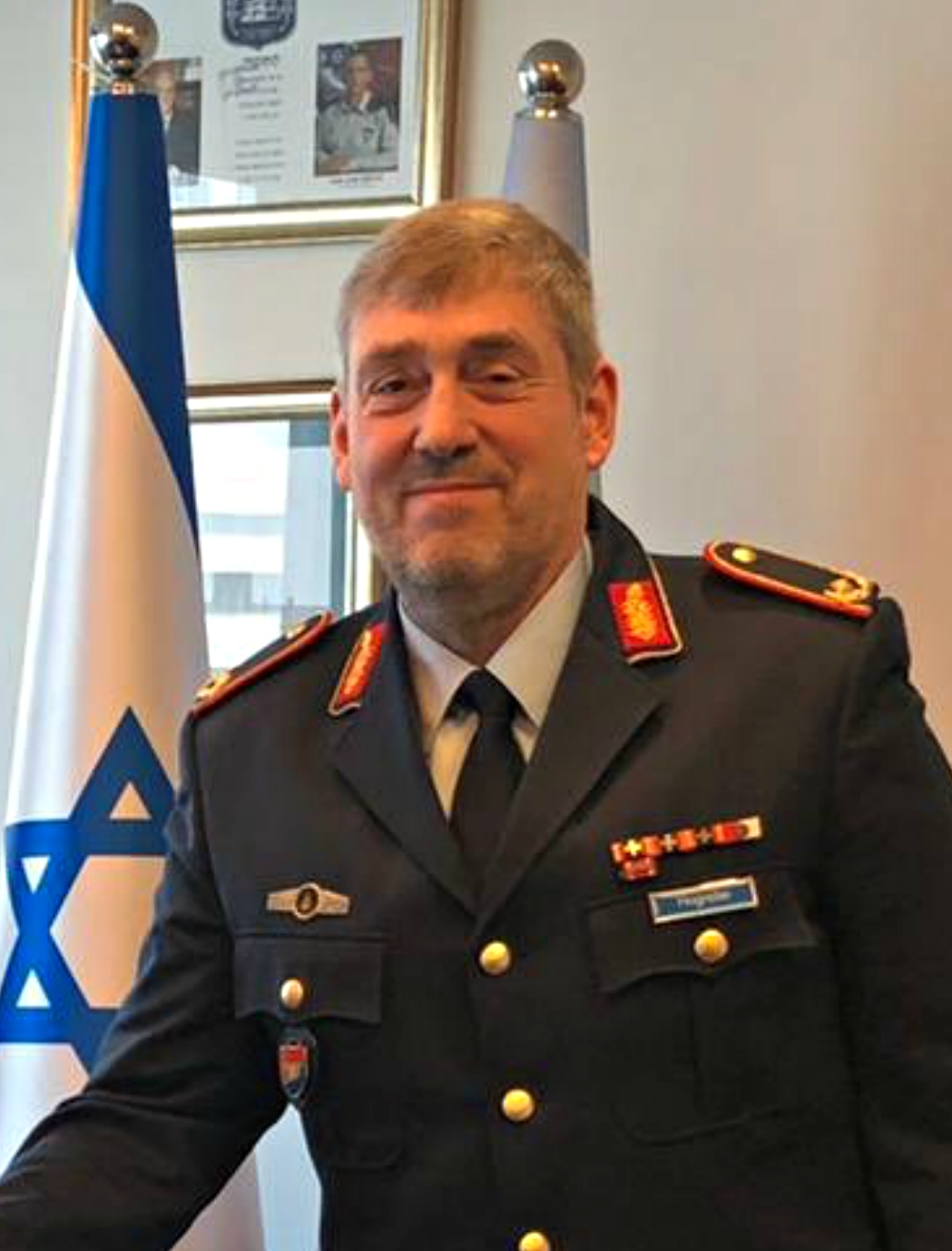 The Head of the German Ground Based units Brig. Gen Michael Hogrebe visited Israel this past week as a guest of The IADF CDR, Brig. Gen. Ran Kochav. The German Air Force have a professional and fruitful cooperation with the Israeli Air Force. During his visit to the IADF he participated in a professional panel and was briefed about the challenges facing the IADF. The general visited the 136 Arrow battalion , 66 battalion - National Early Warning Center and 947 Iron Dome battalion. BG Hogrebe and BG Kochav discussed the cooperation between the forces and have agreed on the activities and way ahead for the next years. This week we also commemorated the international holocaust day and 75th anniversary for the liberation of Auschwitz-Birkenau consternation camp.